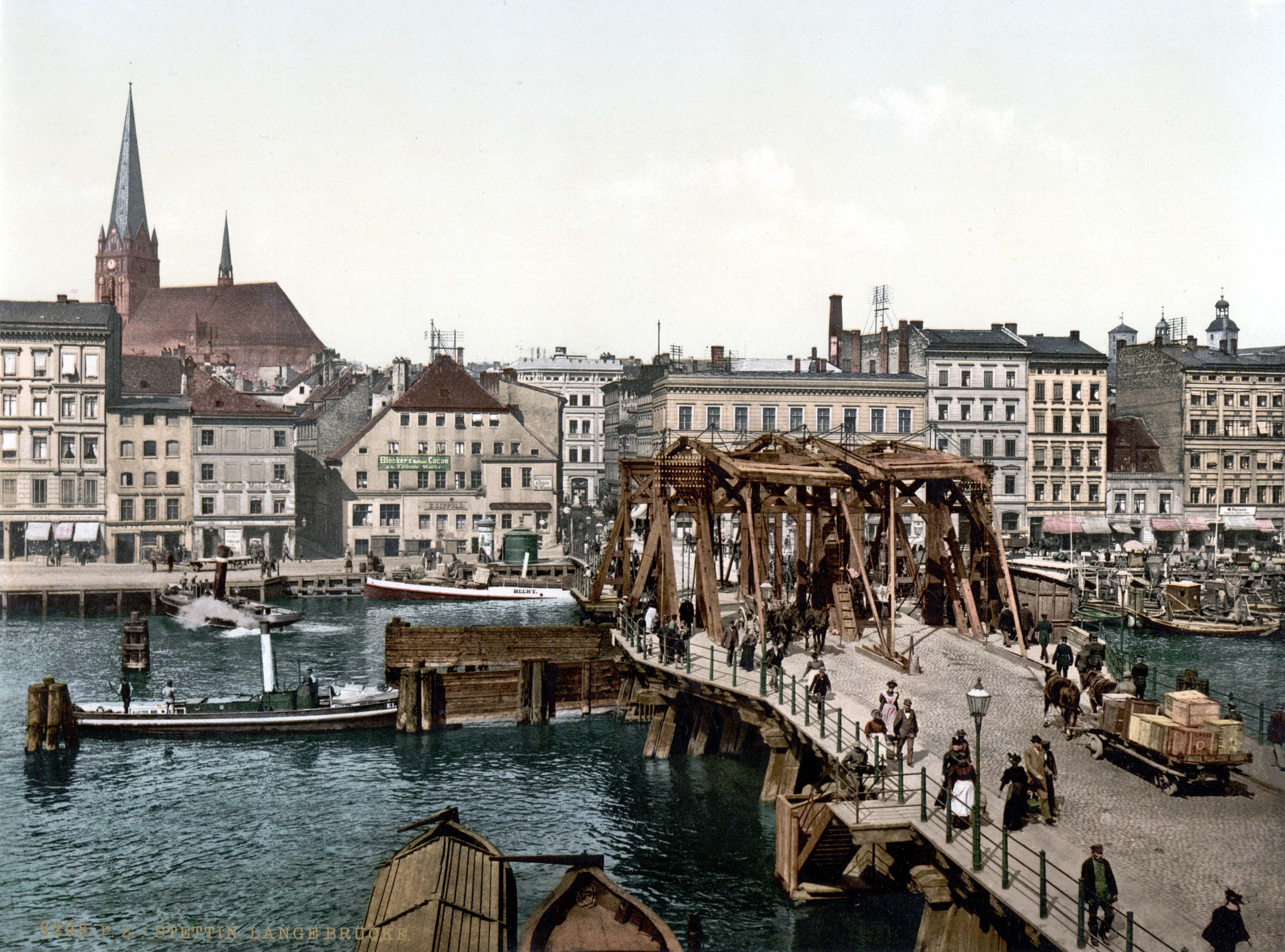 Stettin (Poland) - general view and Great Bridge (Lange Brücke)